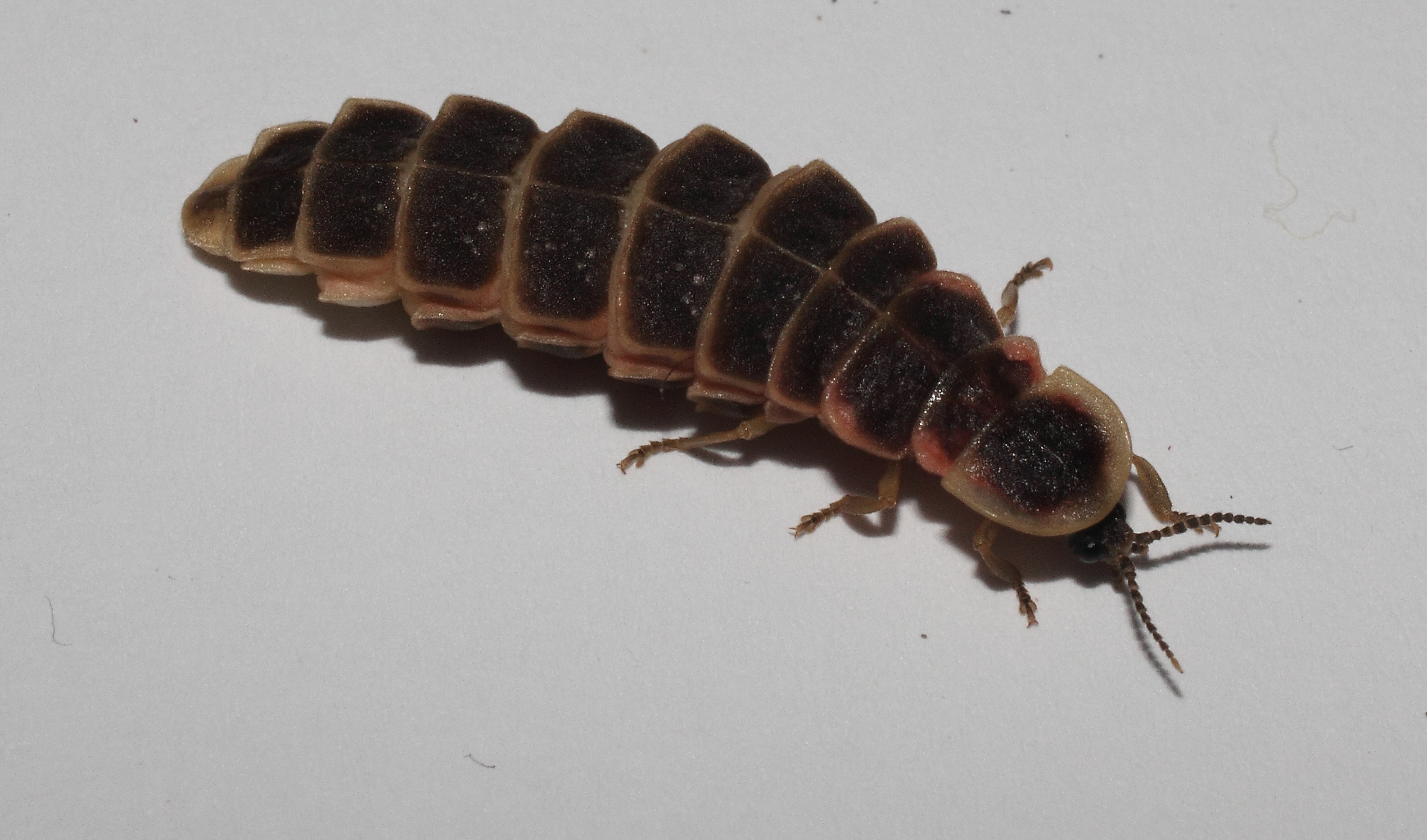 Lampyris noctiluca